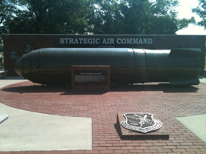 A Mark 17 thermonuclear bomb at the Strategic Air Command Memorial in Fort Worth NAS JRB, TX